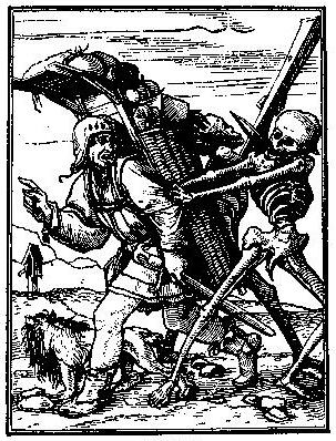 Pedlar